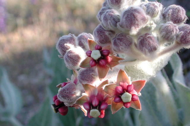 Asclepias californica